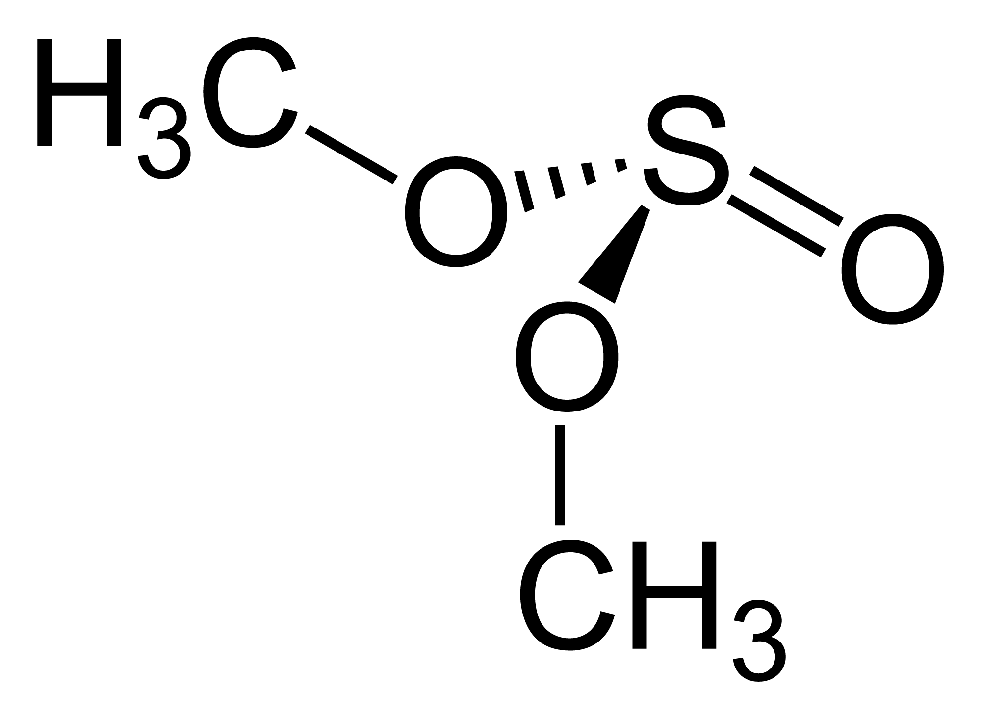 Structural formula of the GG confomer of the dimethyl sulfite molecule, C2H6O3S. Structure from J. Phys. Chem. A (2005) 109, 3578–3586.